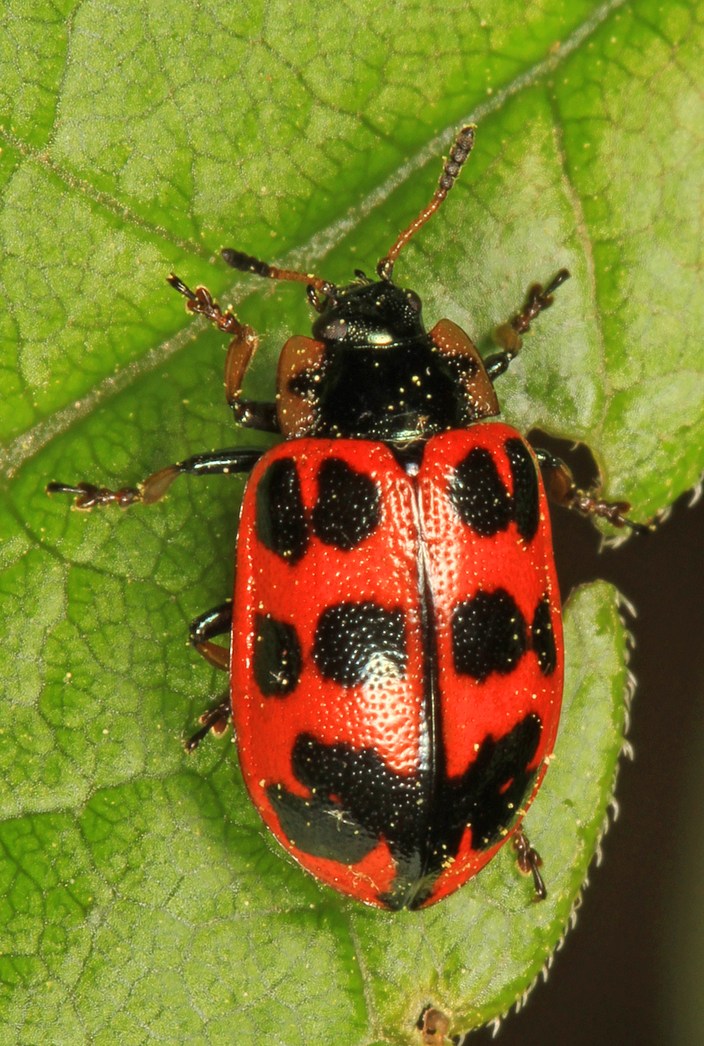 Alder Leaf Beetle - Chrysomela interrupta, Leesylvania State Park, Woodbridge, Virginia. There is another similar Chrysomela species, but I think this is the Alder Leaf Beetle since there were many Alders around, and the other species lives on Willow, which there weren't any of those around.